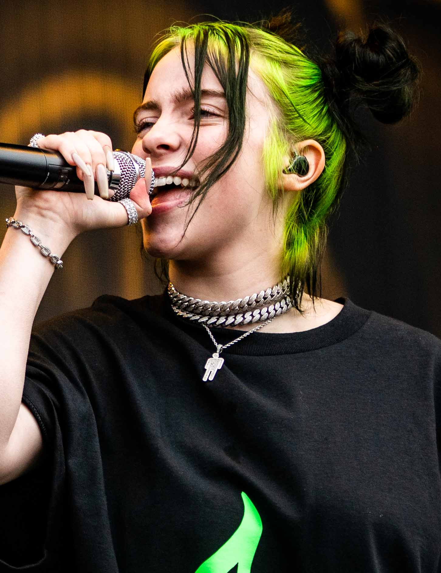 Billie Eilish at the 2019 Pukkelpop Music Festival. (Kiewit, Hasselt, Belgium)